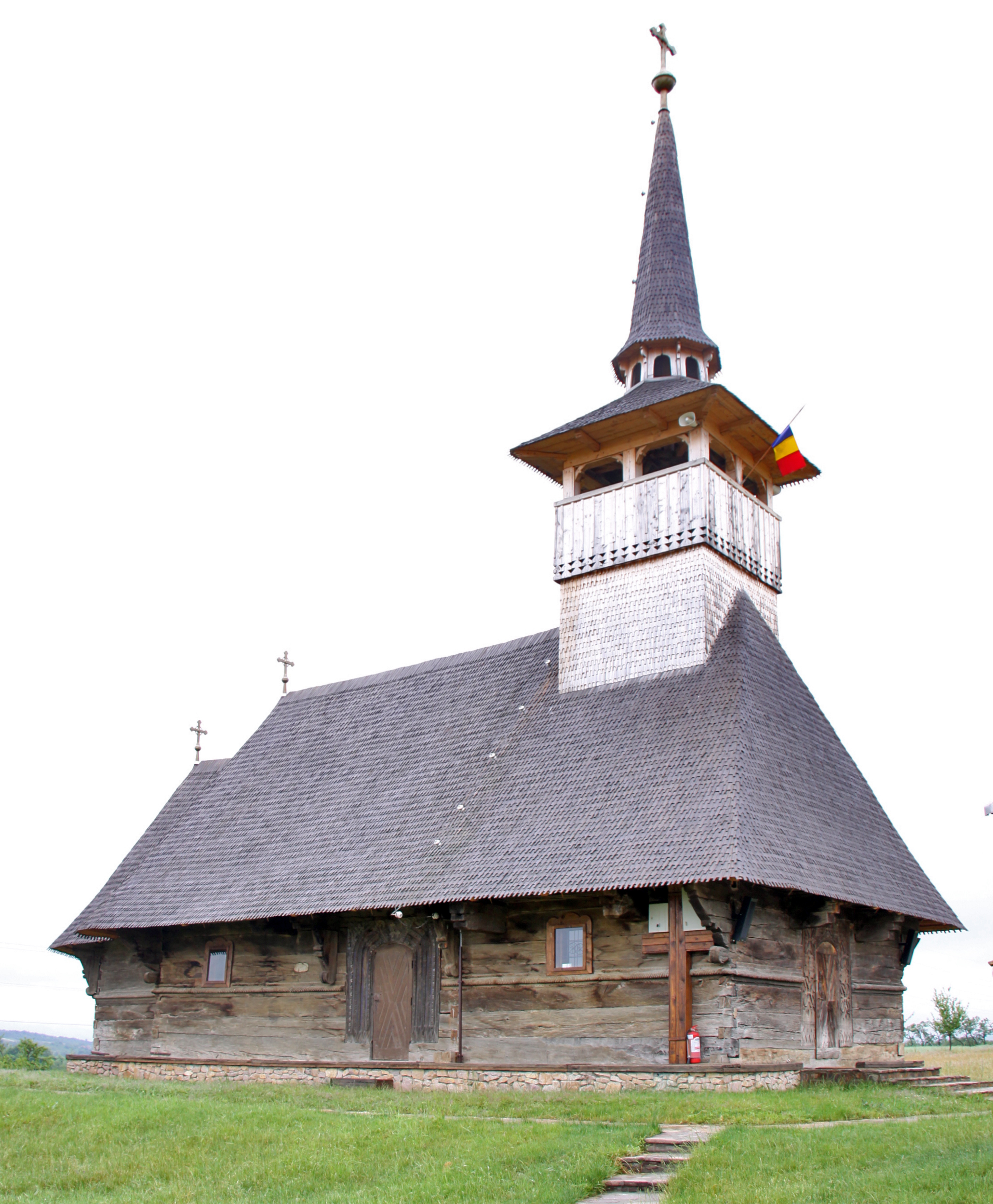 Cucuceni, Bihor: the wooden church initially in Ghighişeni. North-West.